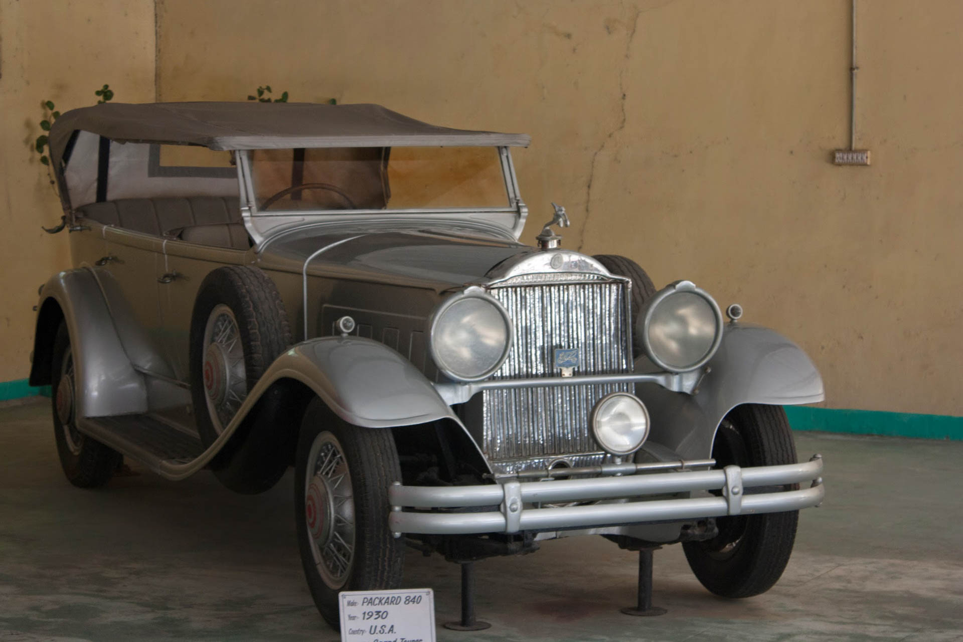 Vintage cars from Pranlal Bhogilal's collection at the Auto World Vintage Car Museum in Kathwada, Gujarat.